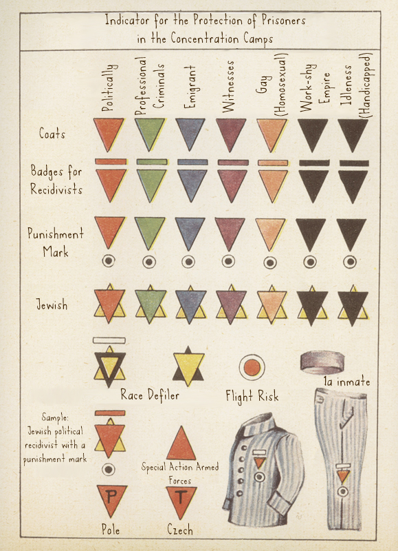 Nazi concentration camp badges, translated to English.